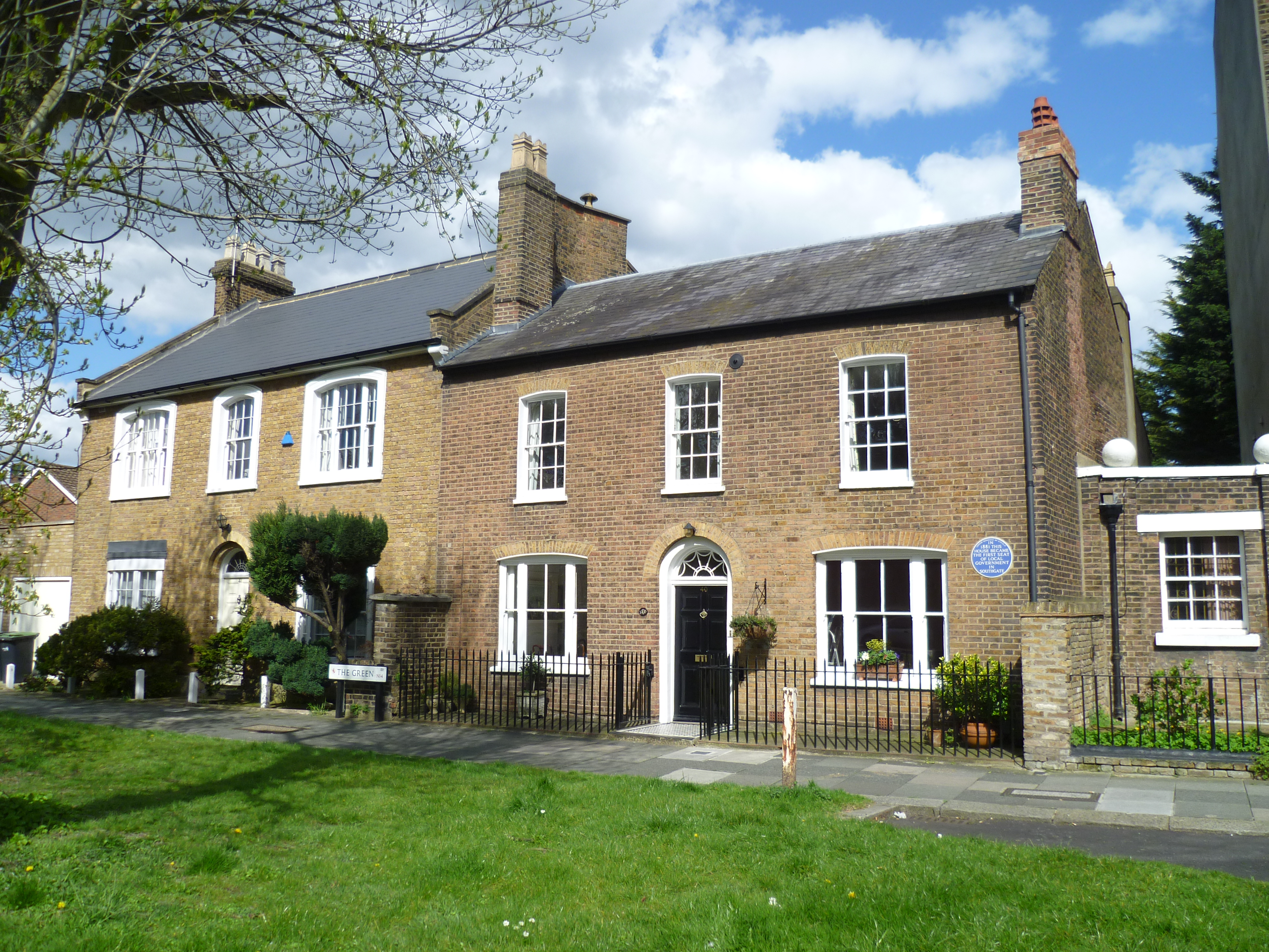 Southgate